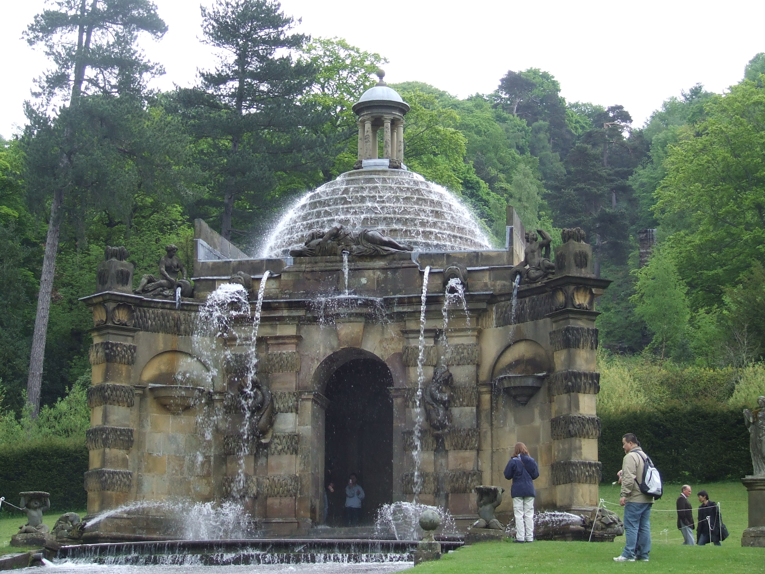 The Cascade House in the gardens of Chatsworth House, Derbyshire